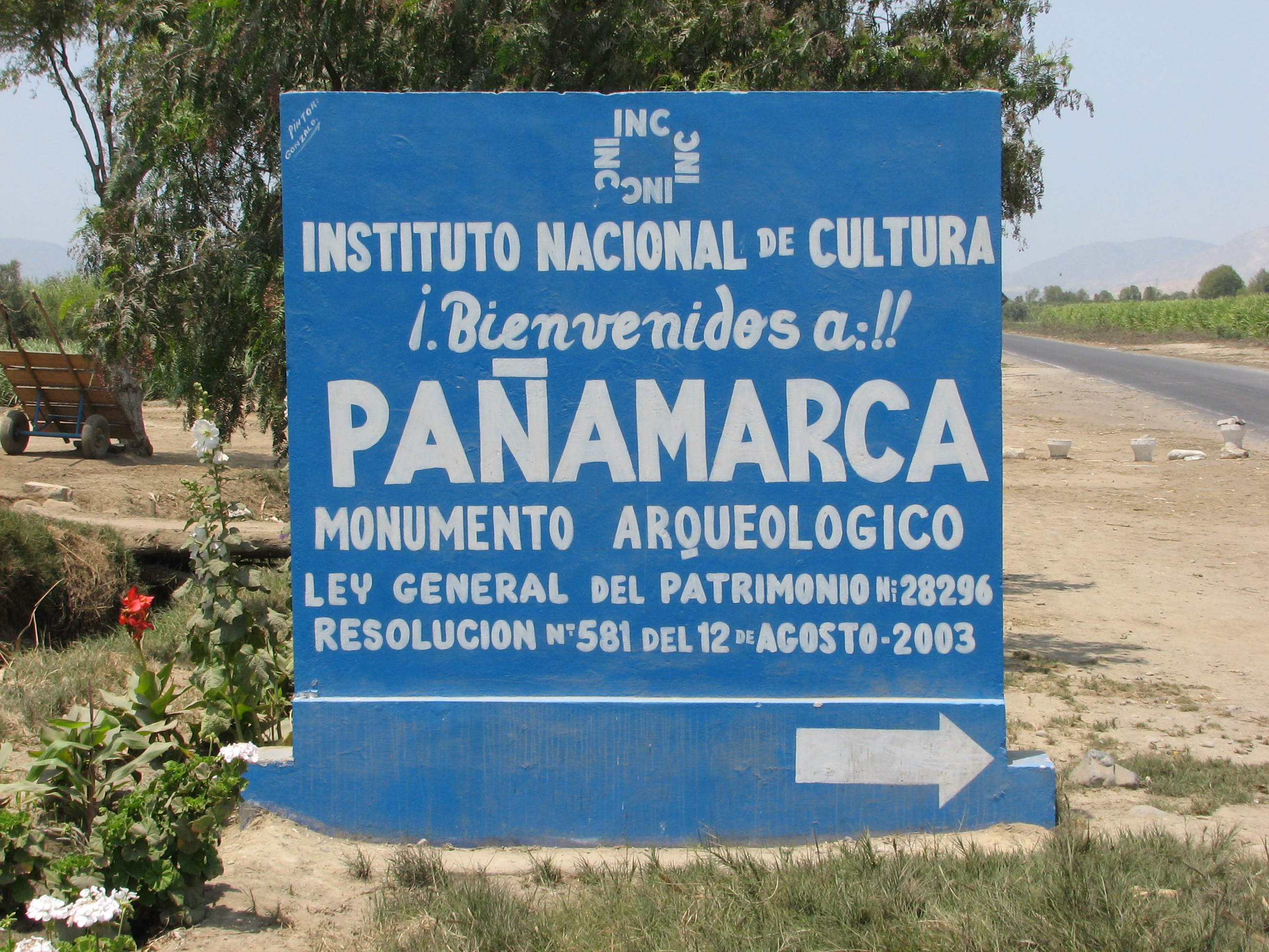 INC (National Institue of Culture) Sign at Pañamarca, Peru.